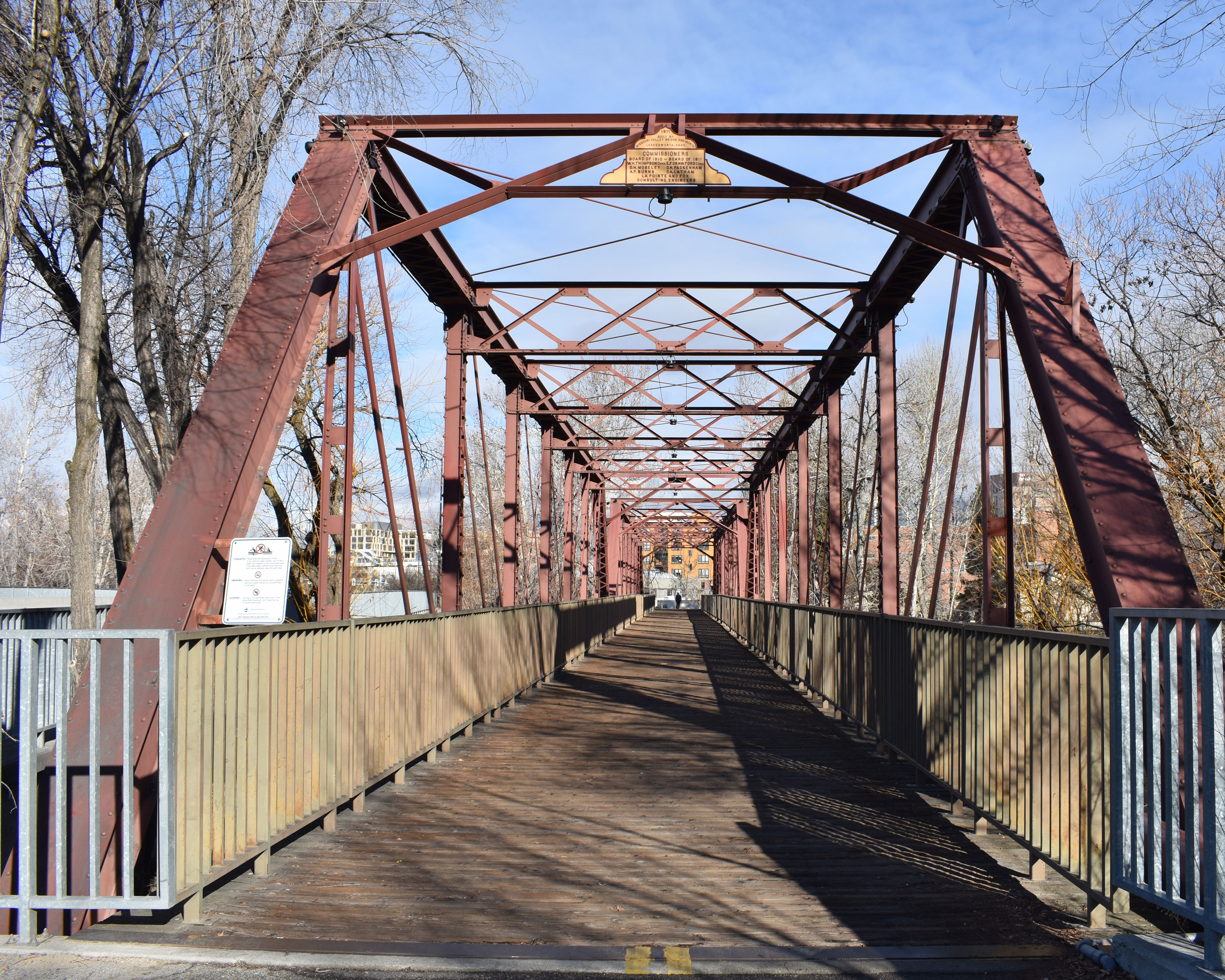 The 9th St Bridge (1911) in Boise, Idaho, is listed on the National Register of Historic Places.